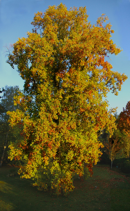 An early morning picture of a European "Tulipier de Virginie" in Fall. Personnal picture, released to public domain